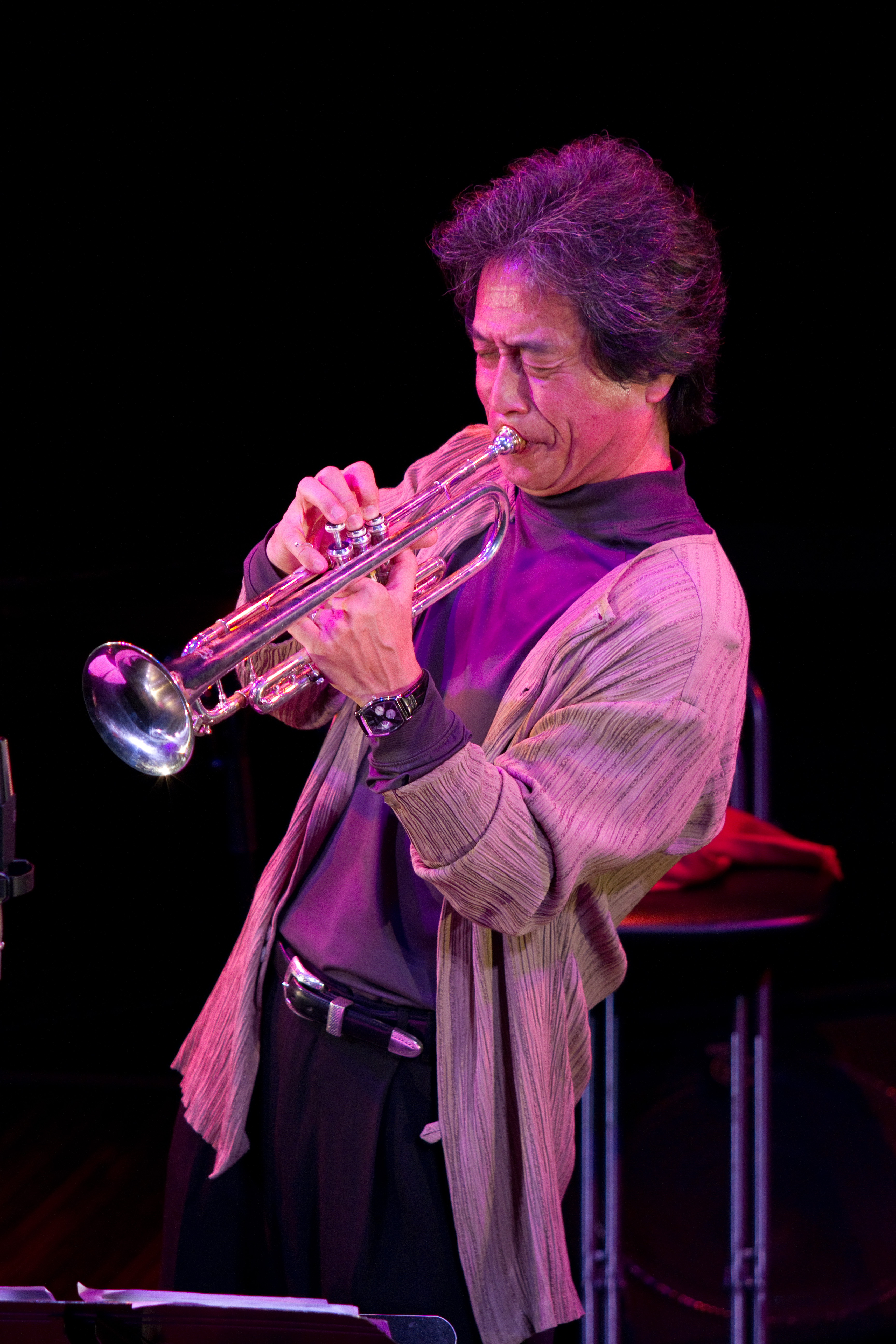 Live performance